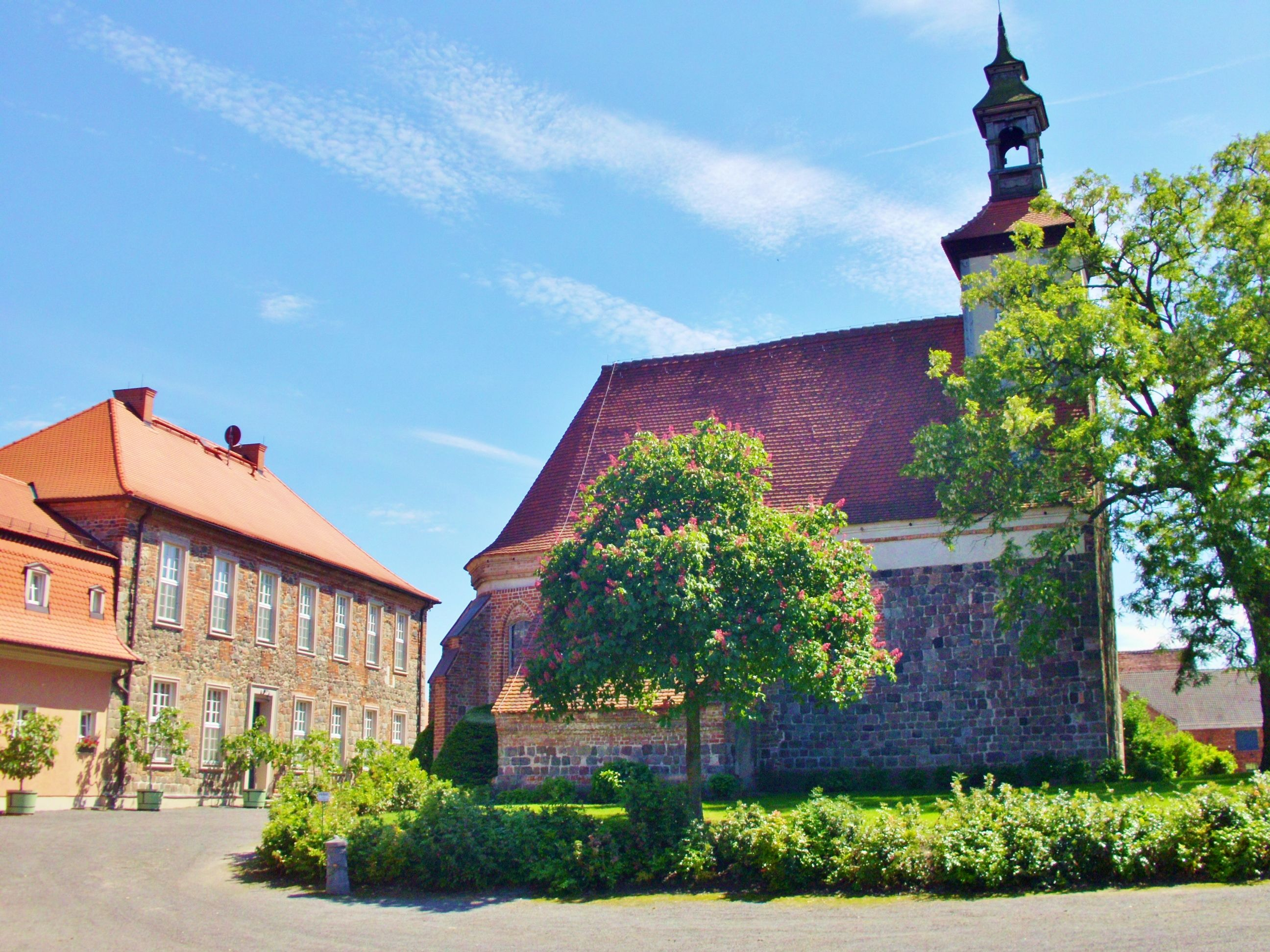 Commandery Lietzen - Commandery church (North side) and manor house